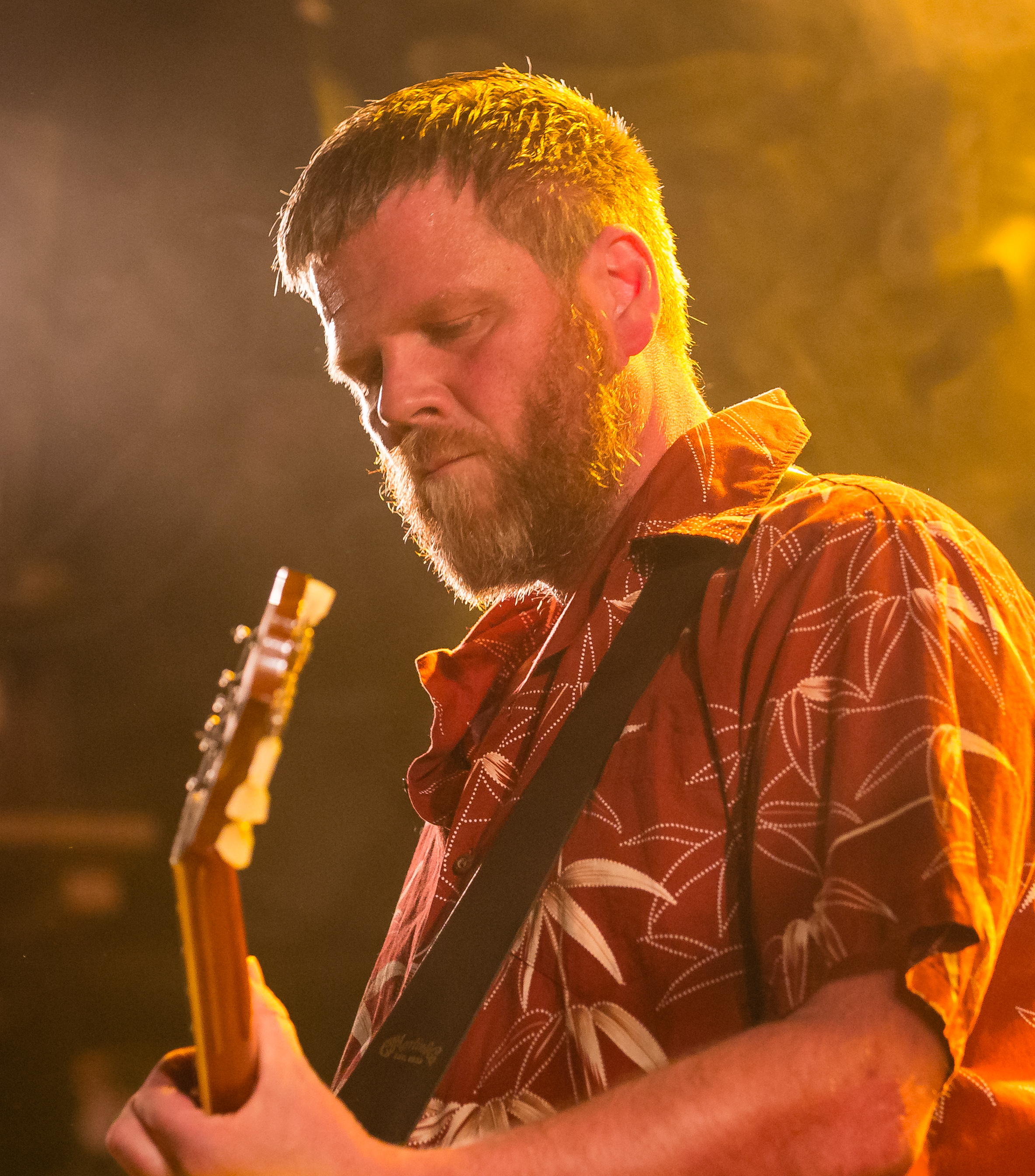 Viggo Krüger performs at a concert with Pogo Pops at Parkteatret in Oslo. Lineup: Frank Hammersland (bass and vocal) Viggo Krüger (guitar) Nikolai Hamre (drums)